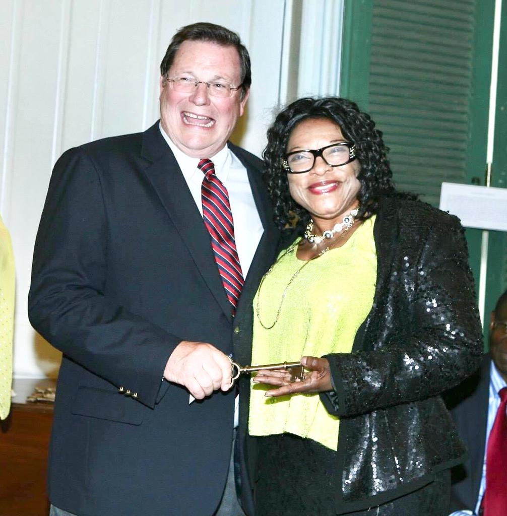 Mark Stodola, the Mayor of the City of Little Rock Arkansas State USA 🇺🇸 presented the Key to the City of Little Rock Arkansas awards to Chief Temitope Ajayi (Mama Diaspora) during the Nigeria-Arkansas Economic Development Forum.